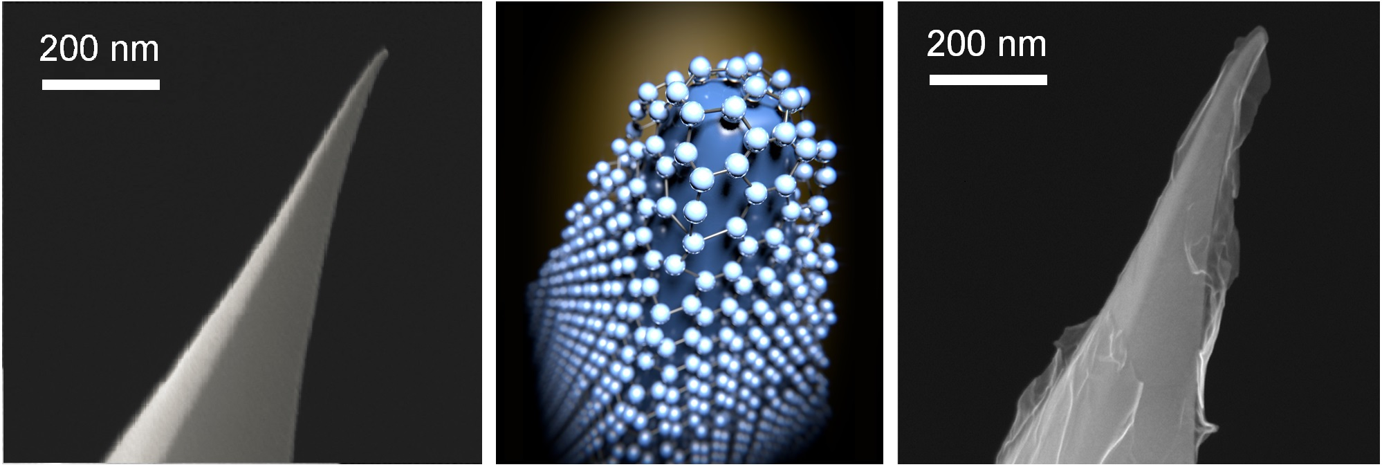 Graphene coated CAFM tips